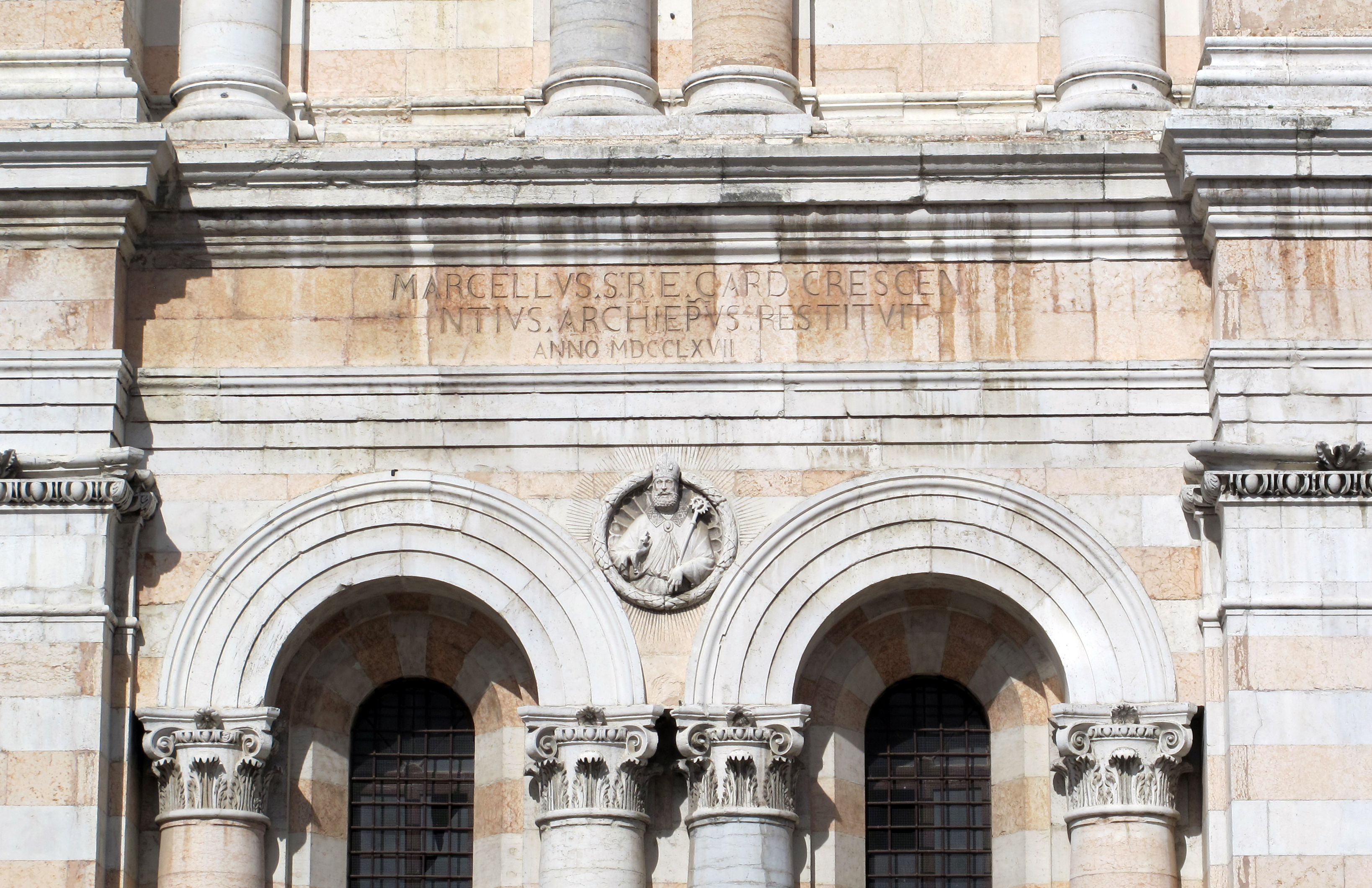 Cathedral (Ferrara) - Bell tower